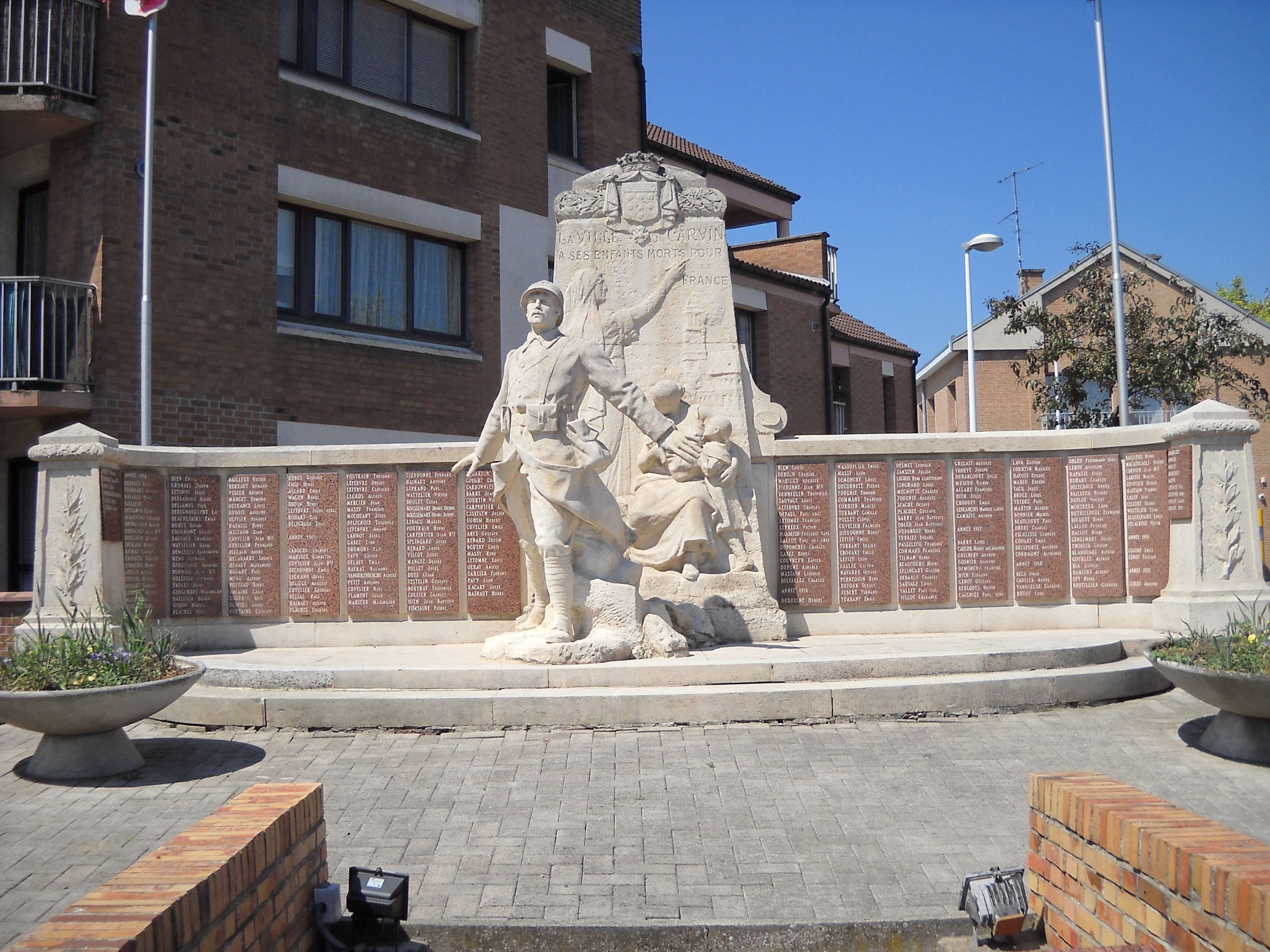 The war memorial of Carvin, Pas-de-Calais, France.